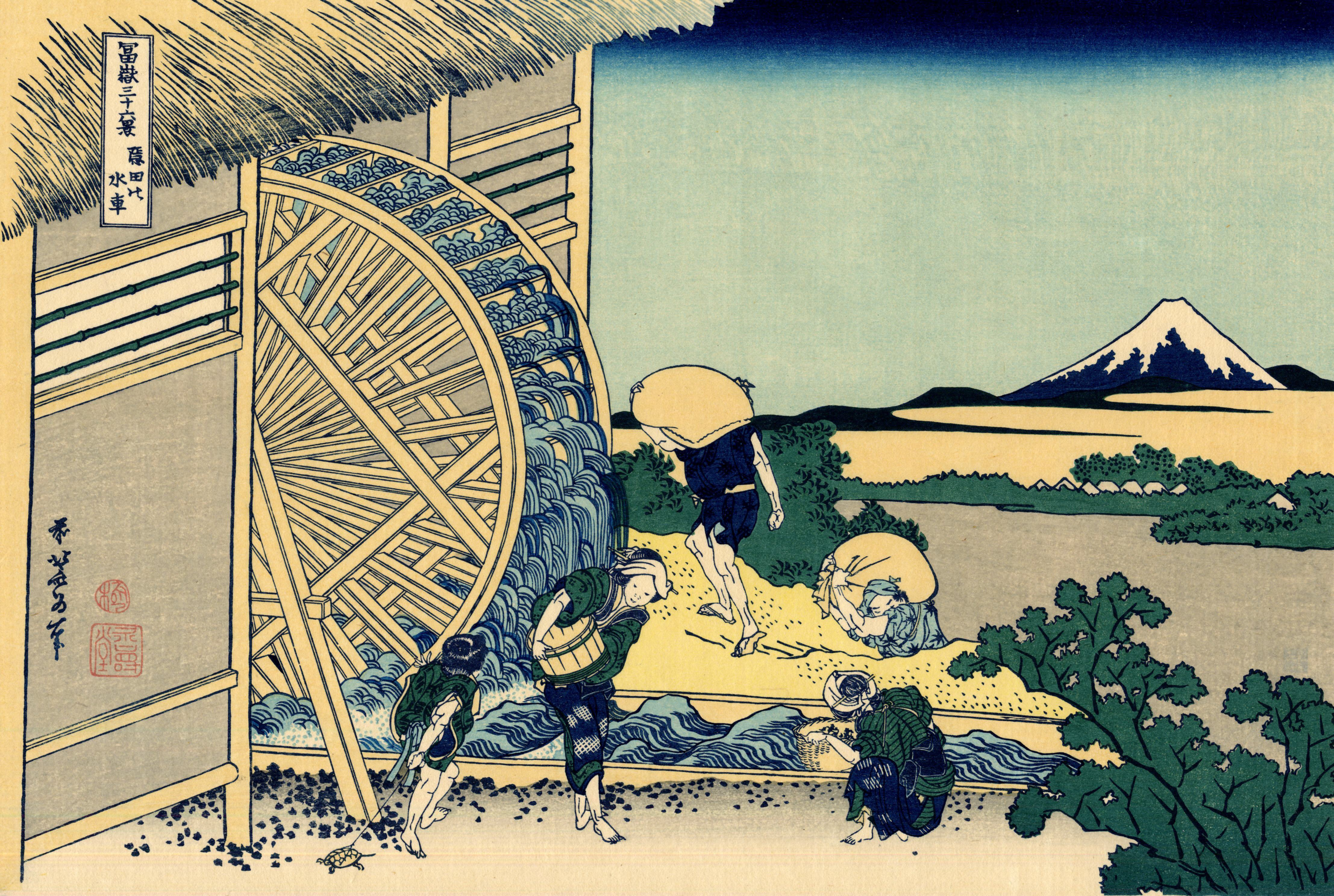 Part of the series Thirty-six Views of Mount Fuji, no. 09.